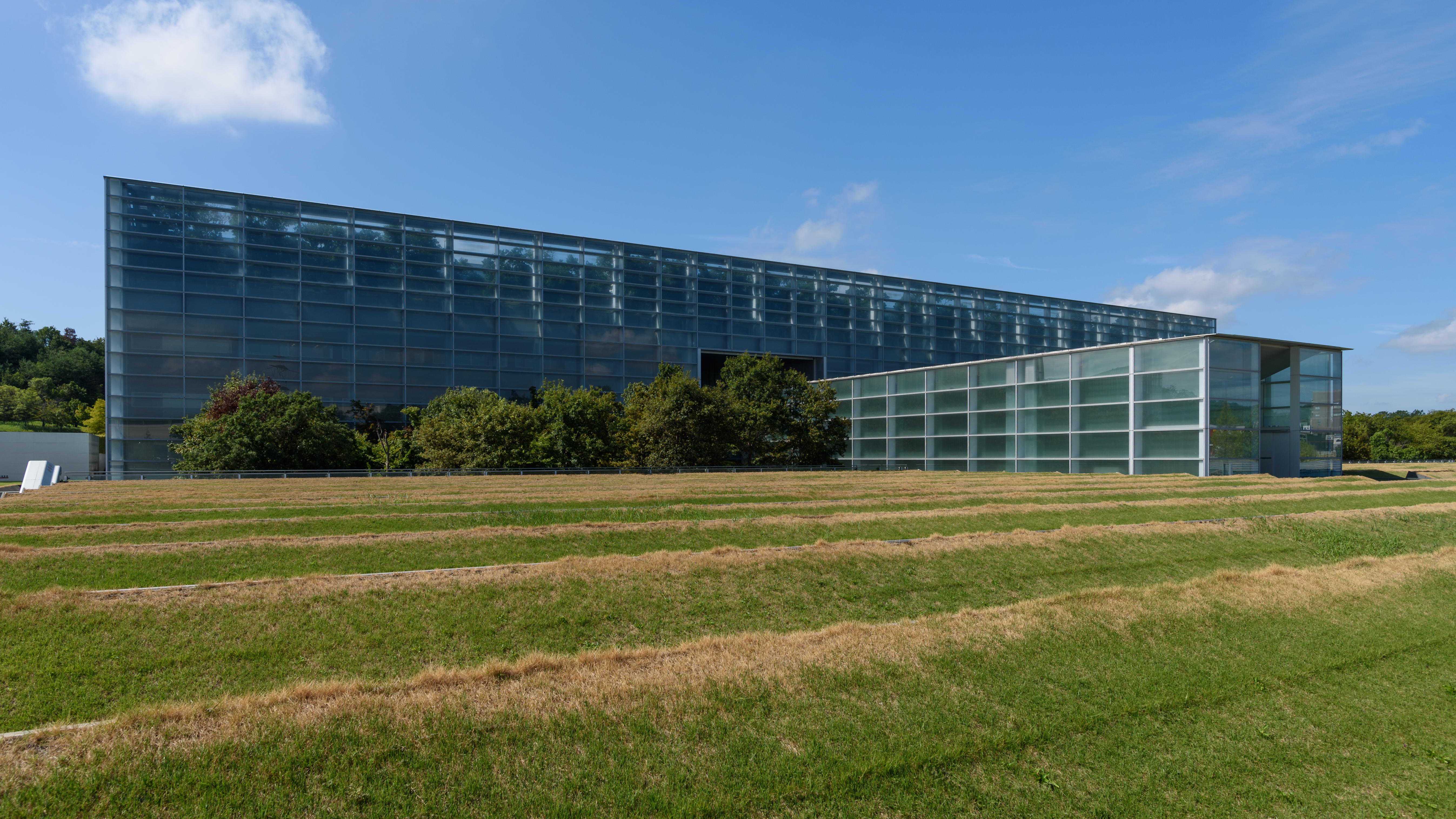 Kansai-kan of the National Diet Library in Kyoto Prefecture, Japan